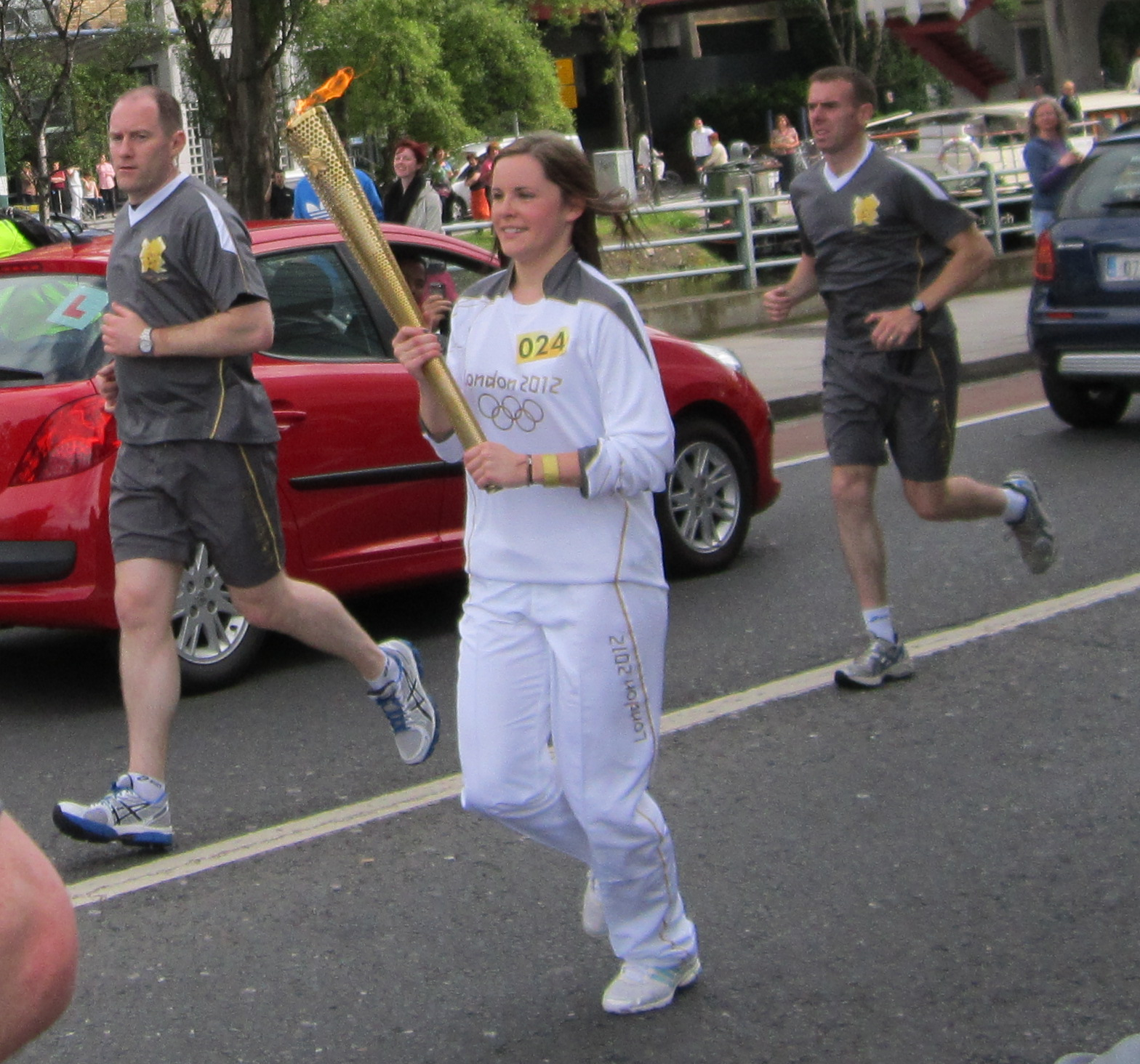 2012 Summer Olympic torch in Dublin, Ireland, carried by Niamh Reid-Burke, international diver and footballer, along Canal Road